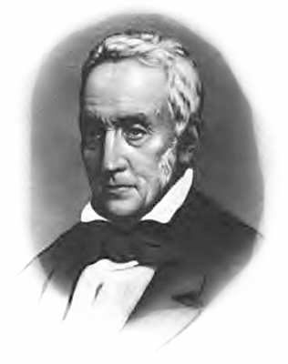 John Reynolds, Gov. of Illinois 1830-1834